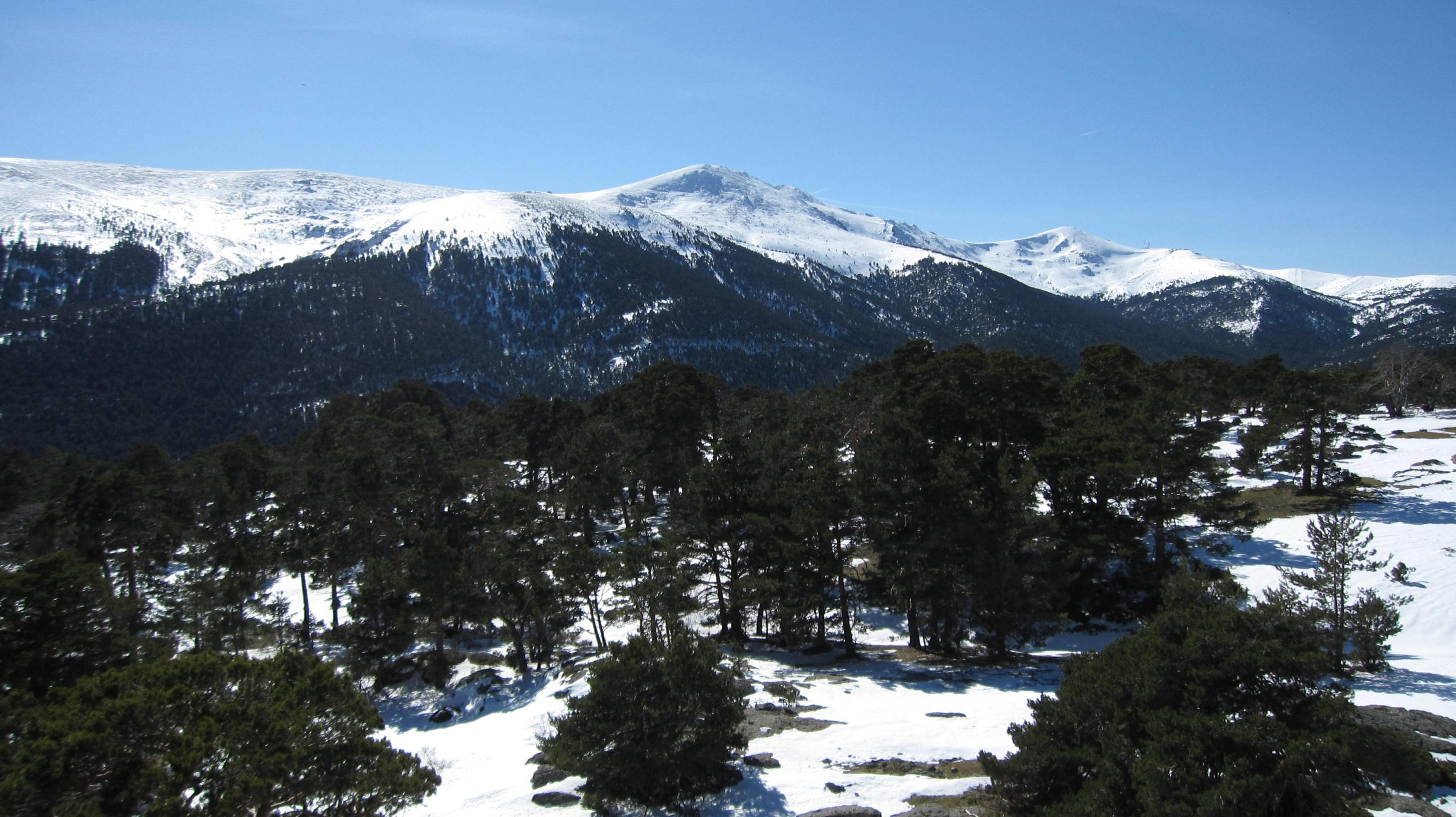 North face of Cuerda Larga seen from Cabeza Mediana summit (Guadarrama mountain range, Central Spain).